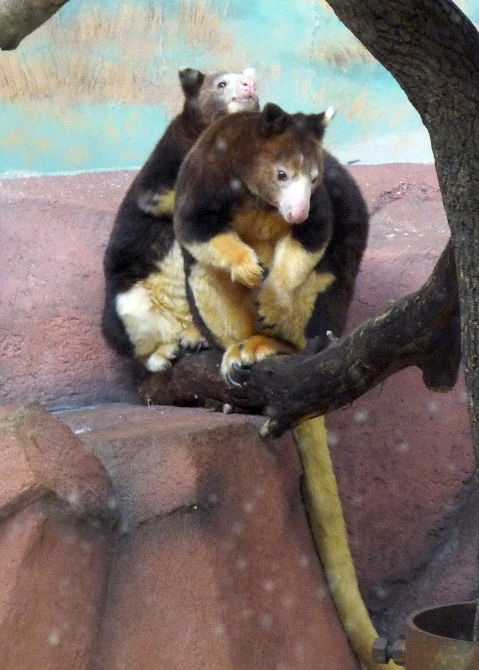 Matschie's Tree-kangaroo (Dendrolagus matschiei) also known as the Huon Tree-kangaroo at Milwaukee County Zoo, USA.